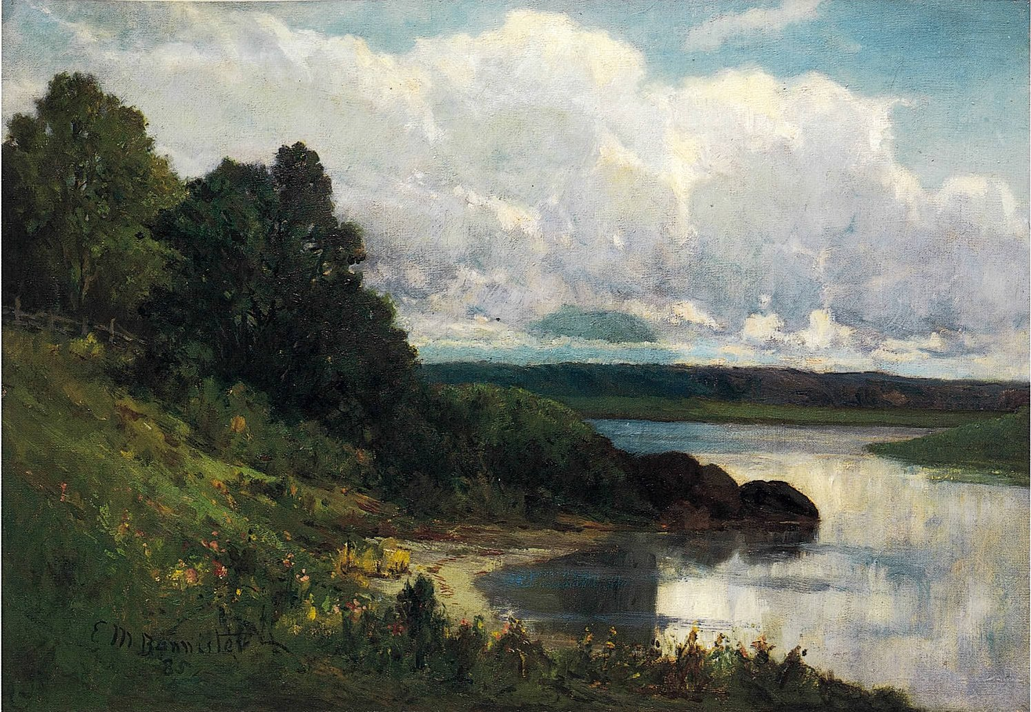 Palmer River by Edward Mitchell Bannister, 1885, oil on canvas, private collection